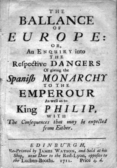 The ballance of Europe : or, an enquiry into the respective dangers of giving the Spanish monarchy to the Emperour as well as to King Philip